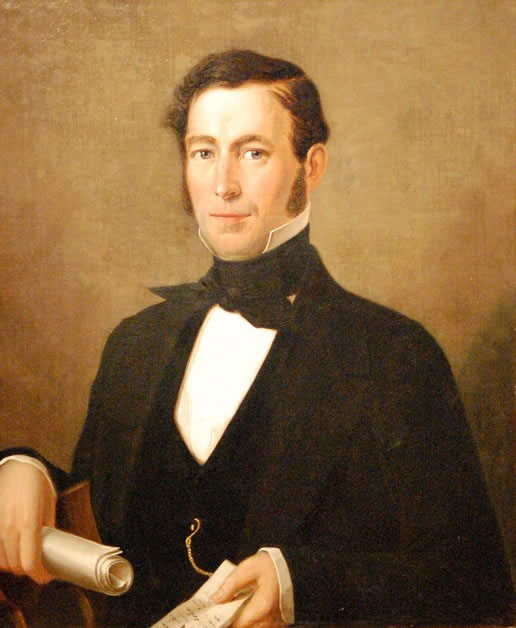 John Butler Snook (1815-1901), ca. 1837. Oil on canvas: 30 x 25 1/4 in. ( 76.2 x 64.1 cm ). New-York Historical Society, 1971.6. Wikipedia Loves Art at the New-York Historical Society This photo of item # 1971.6 at the New-York Historical Society was contributed under the team name "the_adverse_possessors" as part of the Wikipedia Loves Art project in February 2009. New-York Historical Society The original photograph on Flickr was taken by _cck_—please add a comment to the original Flickr page whenever a use has been made on Wikipedia or another project. Project galleries on Flickr: this institution, this team John Butler Snook (1815-1901), ca. 1837. Oil on canvas: 30 x 25 1/4 in. ( 76.2 x 64.1 cm ). New-York Historical Society, 1971.6. Wikipedia Loves Art at the New-York Historical Society This photo of item # 1971.6 at the New-York Historical Society was contributed under the team name "the_adverse_possessors" as part of the Wikipedia Loves Art project in February 2009. New-York Historical Society The original photograph on Flickr was taken by _cck_—please add a comment to the original Flickr page whenever a use has been made on Wikipedia or another project. Project galleries on Flickr: this institution, this team